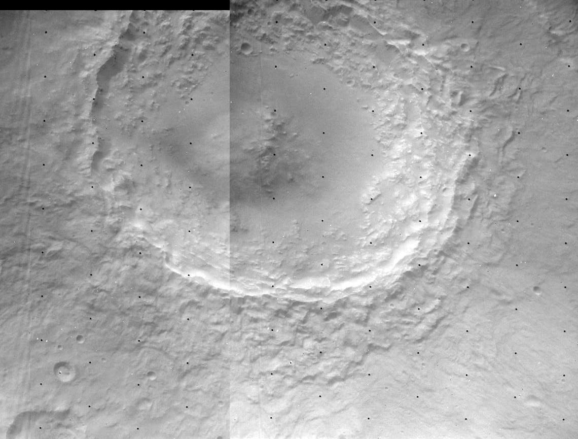 Oblique view of Ottumwa crater on Mars. Mosaic of two Viking 1 images from camera A (22A22 and 22A24). Clear filter was used for these images. Resolution is about 48.5 m/pixel. Emission Angle: 34.6 Incidence Angle: 42.1 Latitude: 24.4 Longitude: 304.1 Phase Angle: 57.3